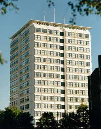 Elmbank Gardens office tower, Charing Cross, Glasgow pictured in 1995 as the "Charing Cross Tower Hotel". Designed by Richard Seifert Co-Partnership (1971-75)